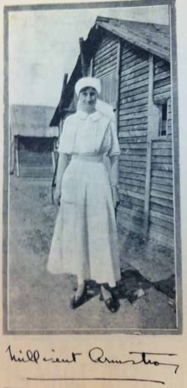 Photograph of Millicent Armstrong from Green Room Pictorial, 1 March 1924.